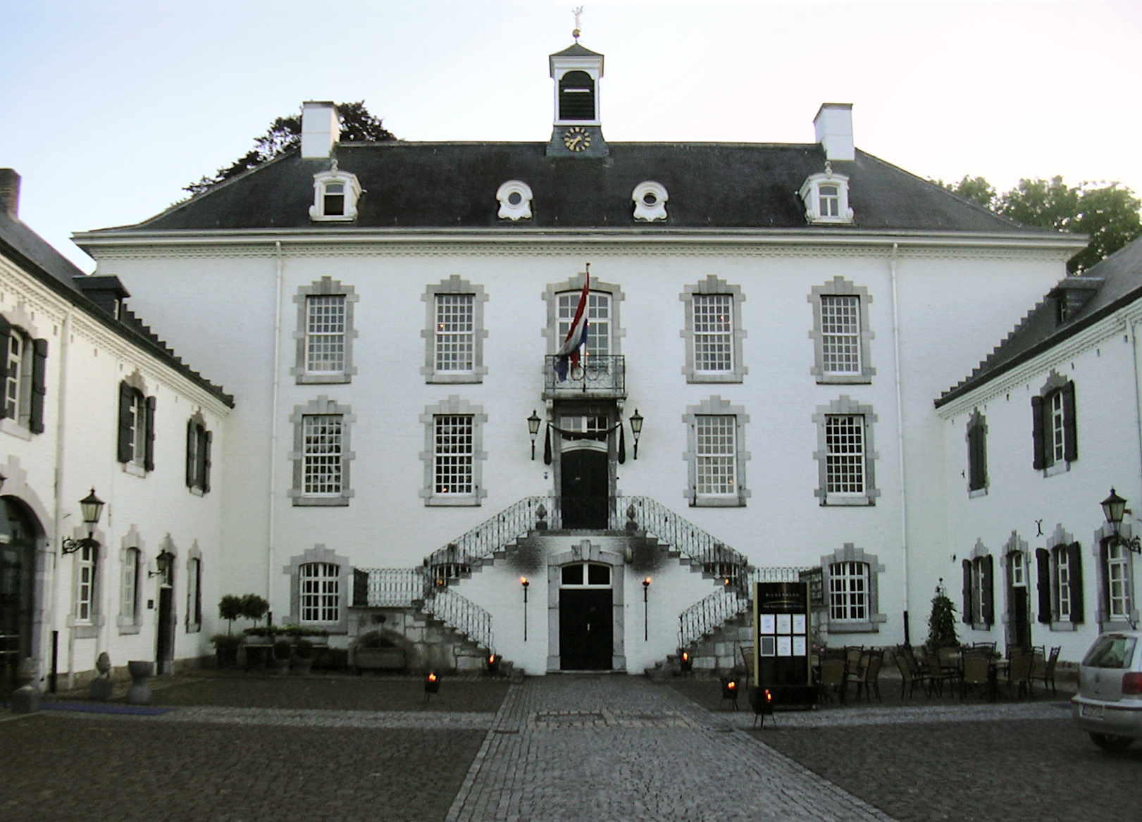 Vaalsbroek Castle, near "Drielandenpunt" frontier Germany / The Netherlands / Belgium